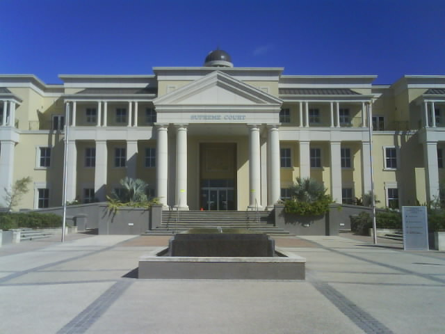 The Supreme Court of Barbados at Whitepark Road. (Located in the Bridgetown neighbourhood of Whitepark), St. Michael.